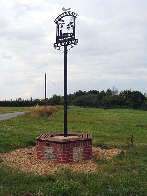 Ilketshall St Andrew - Village Sign. This village sign was erected in 2001.